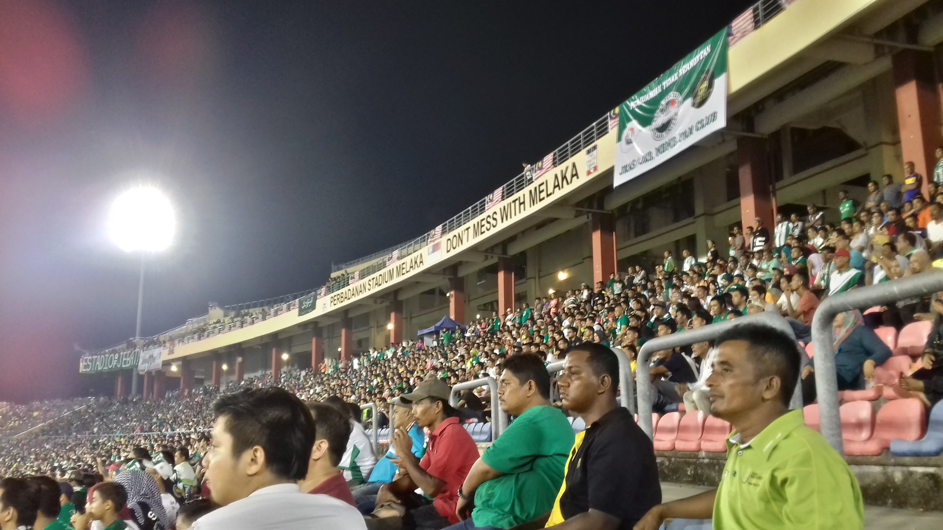 Hang Jebat Stadium during a football match.